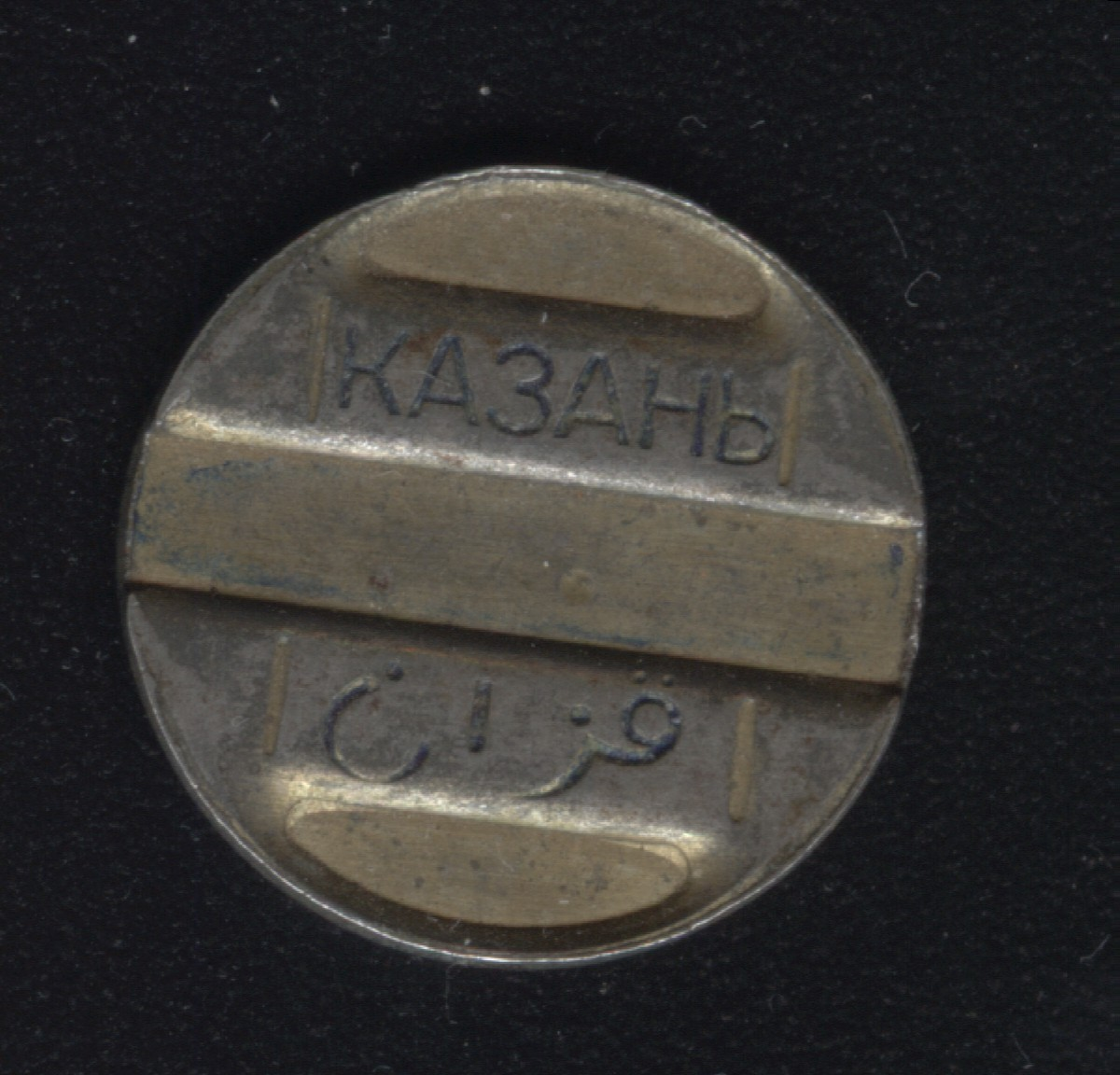 Telephone token of mid 1990s in Kazan represents city's name in Russian language and Tatar language, written inen:Iske Imla (Arabic) alphabet.